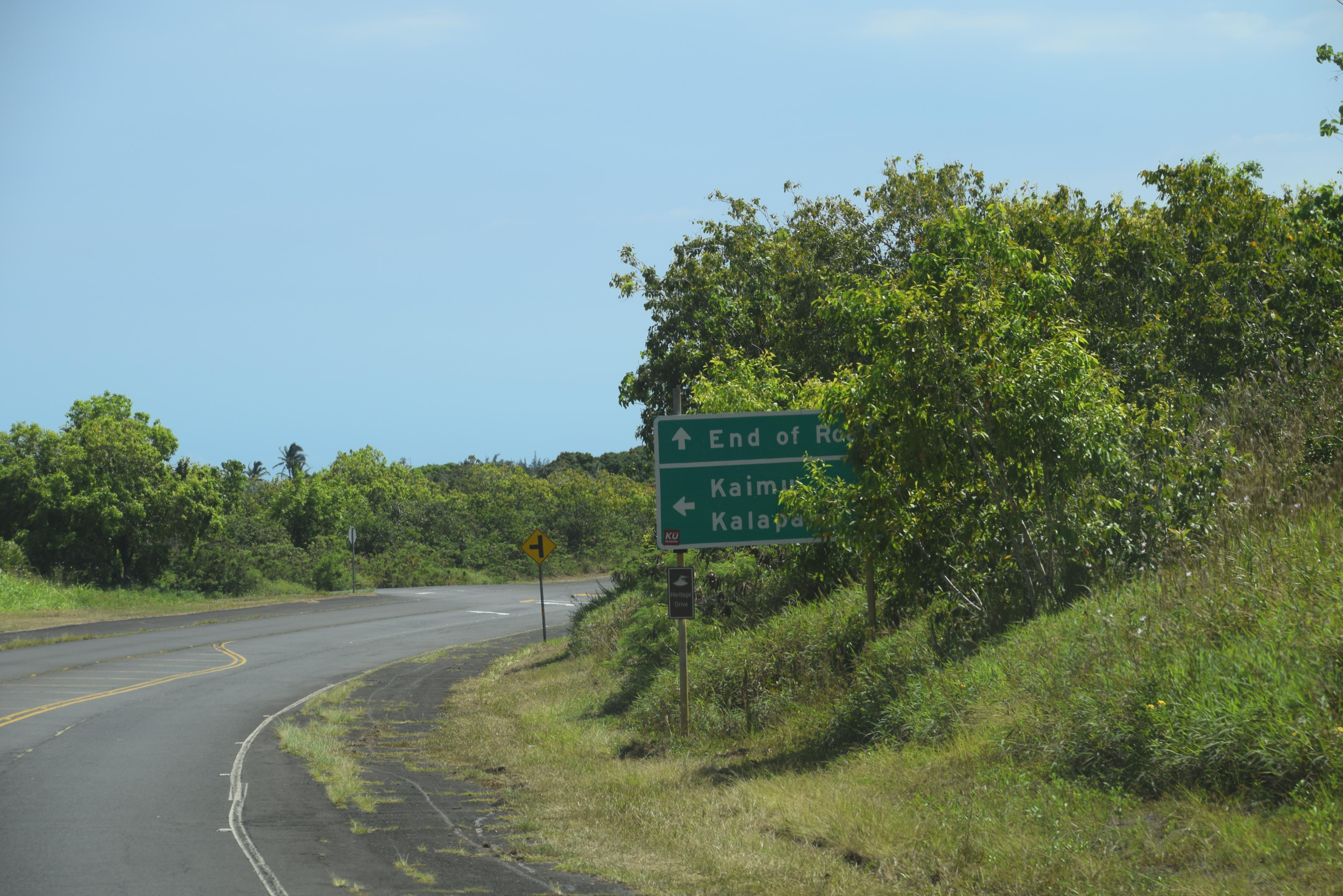 Hawaii Route 130 comes to an end in Kaimu, Hawaii, right after 21.5 miles from Keaau (2016)